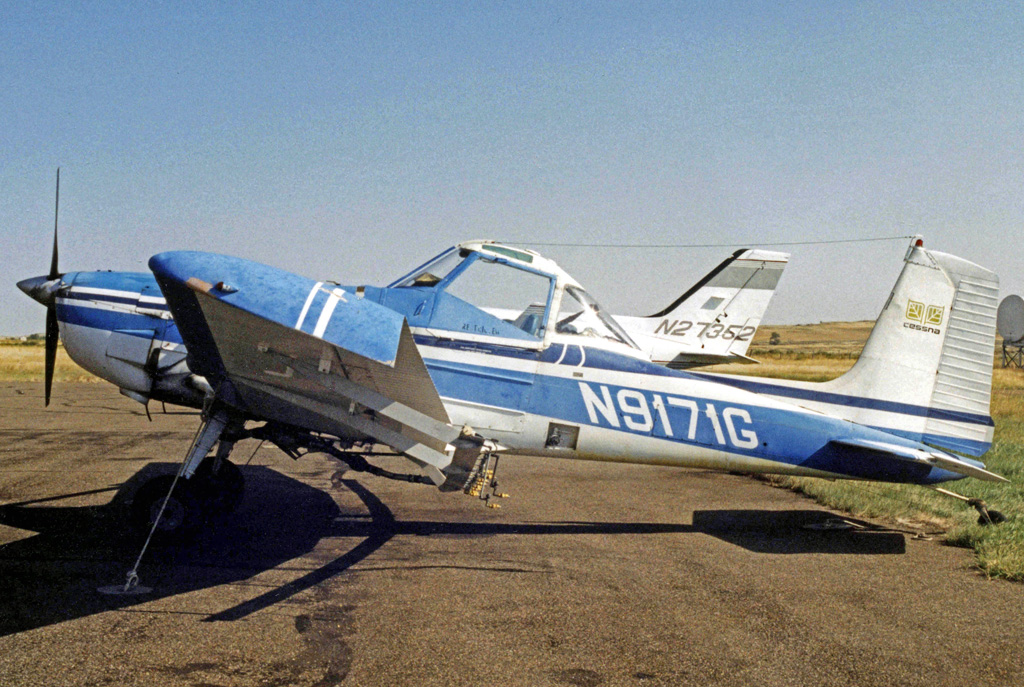 Cessna A188B Agwagon N9171G sprayer at Jordan Airport Montana in 1999.